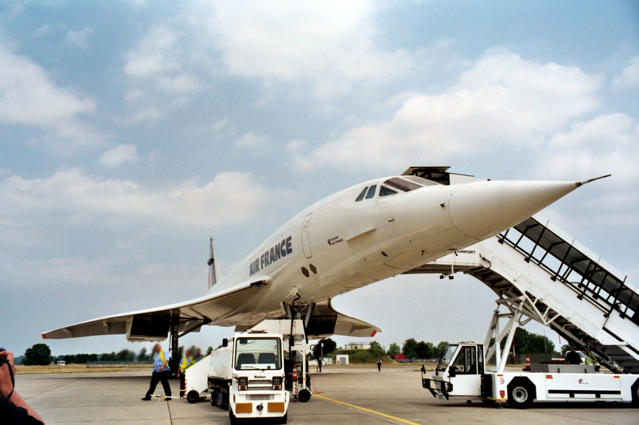 Baden Airpark: Air France Concorde F-BVFB after its last flight.